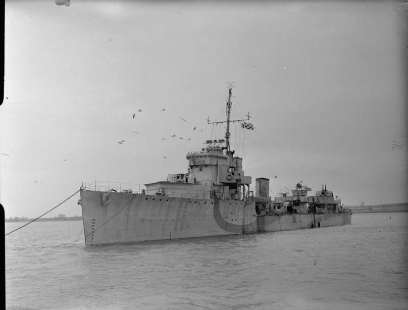 Photograph of British destroyer HMS Whitshed.